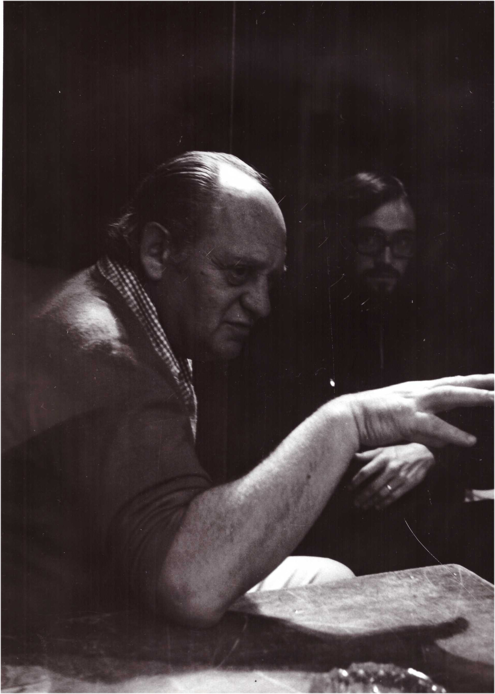 György Harag (1925–1985) Hungarian director and actor from Transylvania, Romania